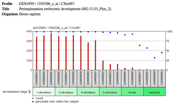 Image of the expression of CXorf67 in humans during preimplantation embryonic development, depicting variation in expression of the gene through this developmental stage.